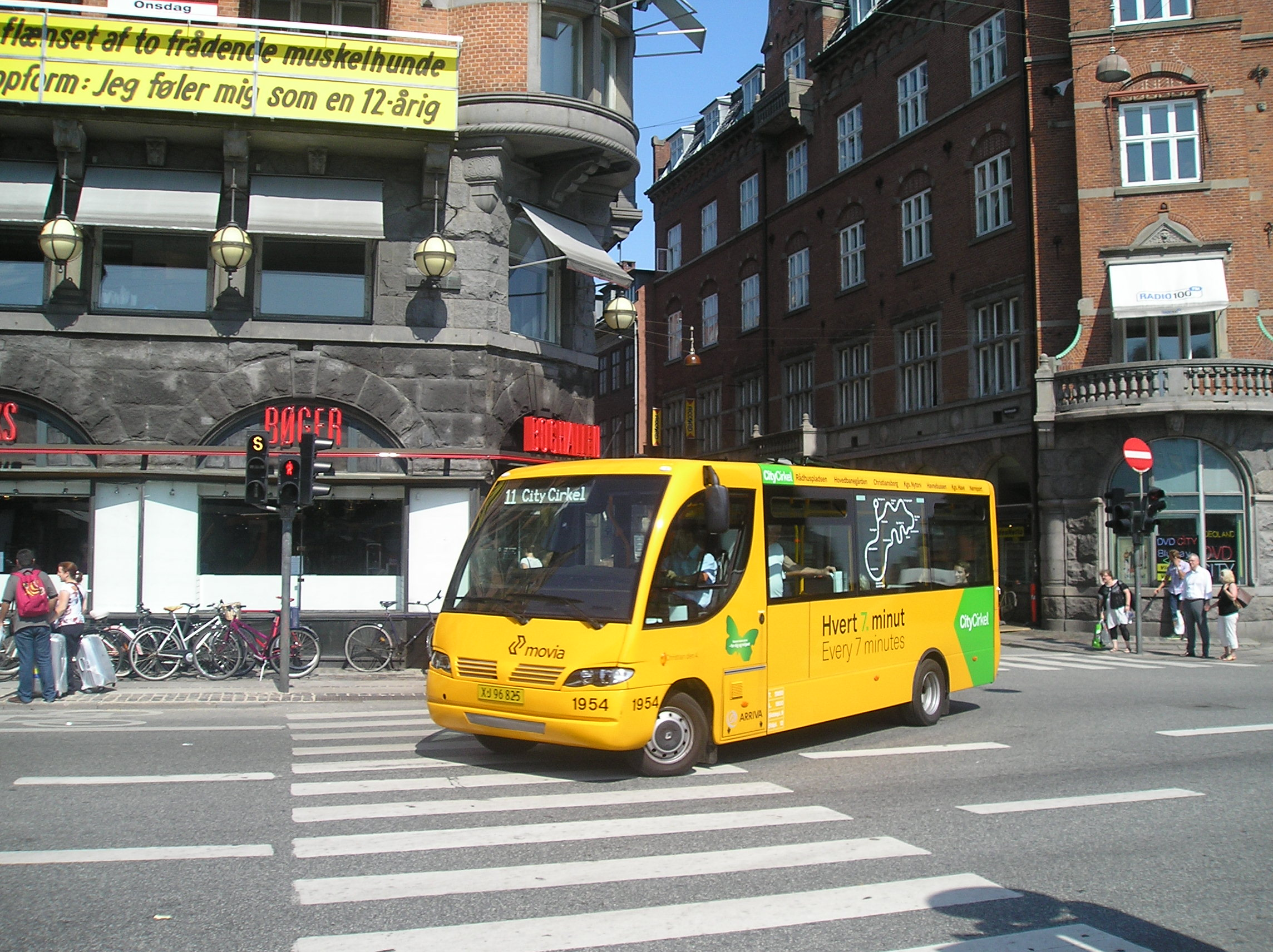 The bus line CityCirkel at the corner of Vester Voldgade and Vestergade at Rådhuspladsen in Copenhagen.